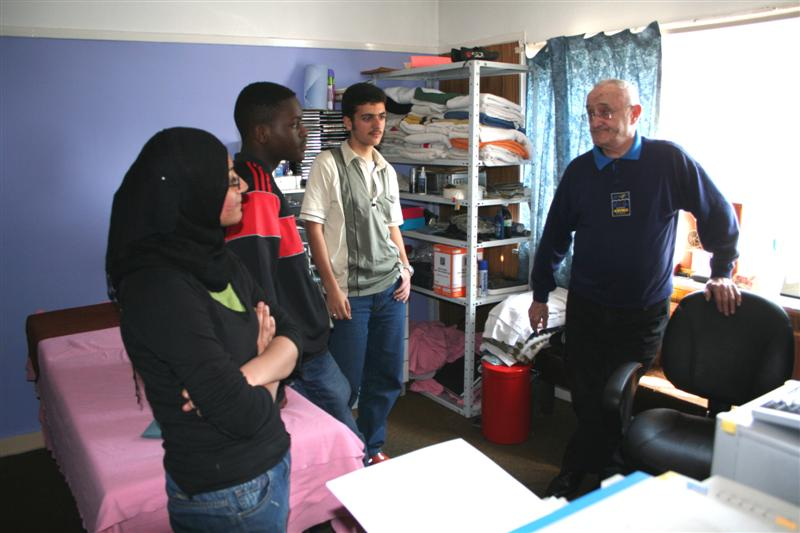 060504_H_studentsTL.jpg taken by Dr Tony Lyons (the author) is licensed under the Creative Commons Attribution ShareAlike License v. 2.5